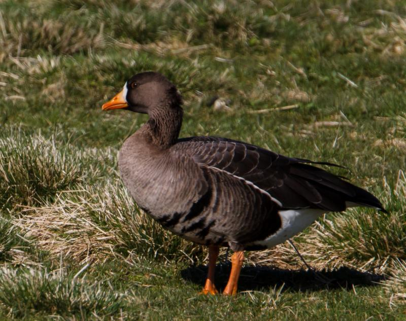 A Greenland White-fronted Goose in Reykjavik, Iceland.